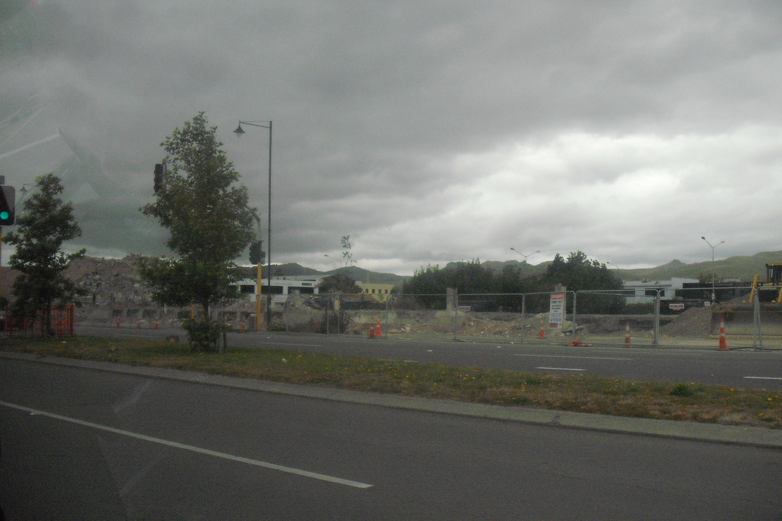 This is the site of the Christchurch train station following the demolition in 2012 after the building was badly damanged in the February 22nd 2011 earthquake.